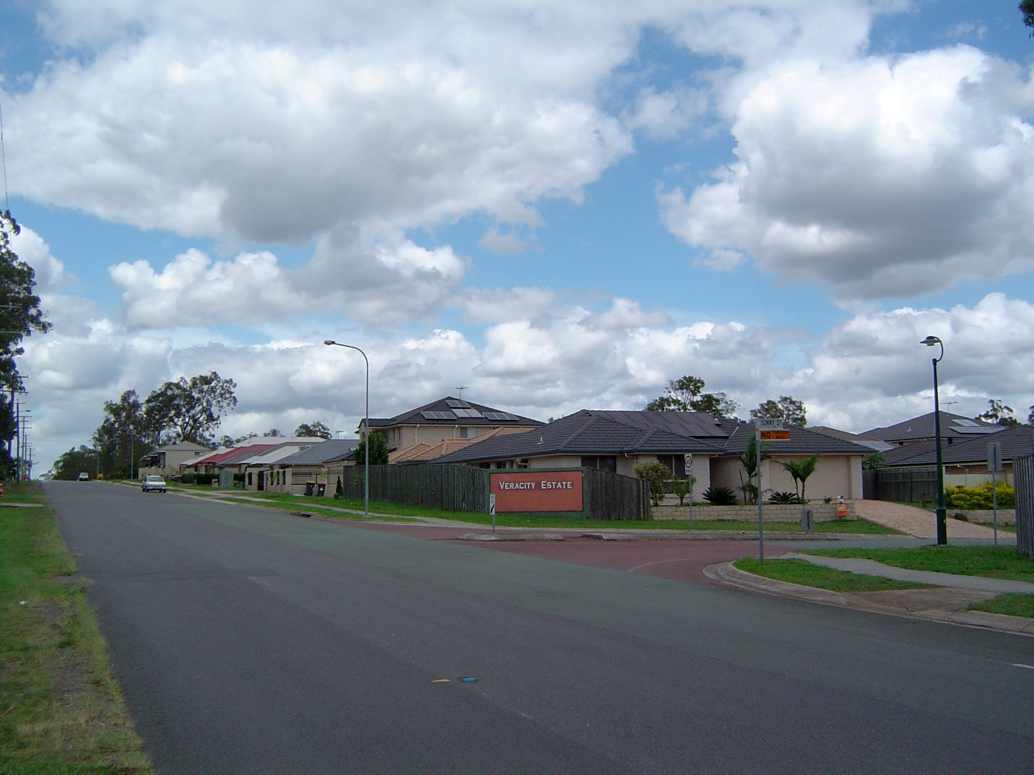 Photo of Rockfield Street at Doolandella, Brisbane, Queensland, Australia.